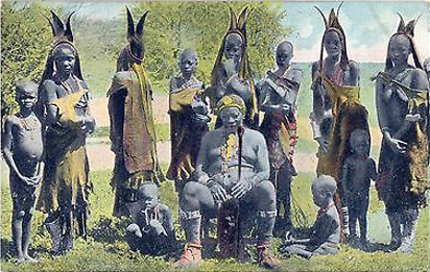 Herero-chief Banjo and his family